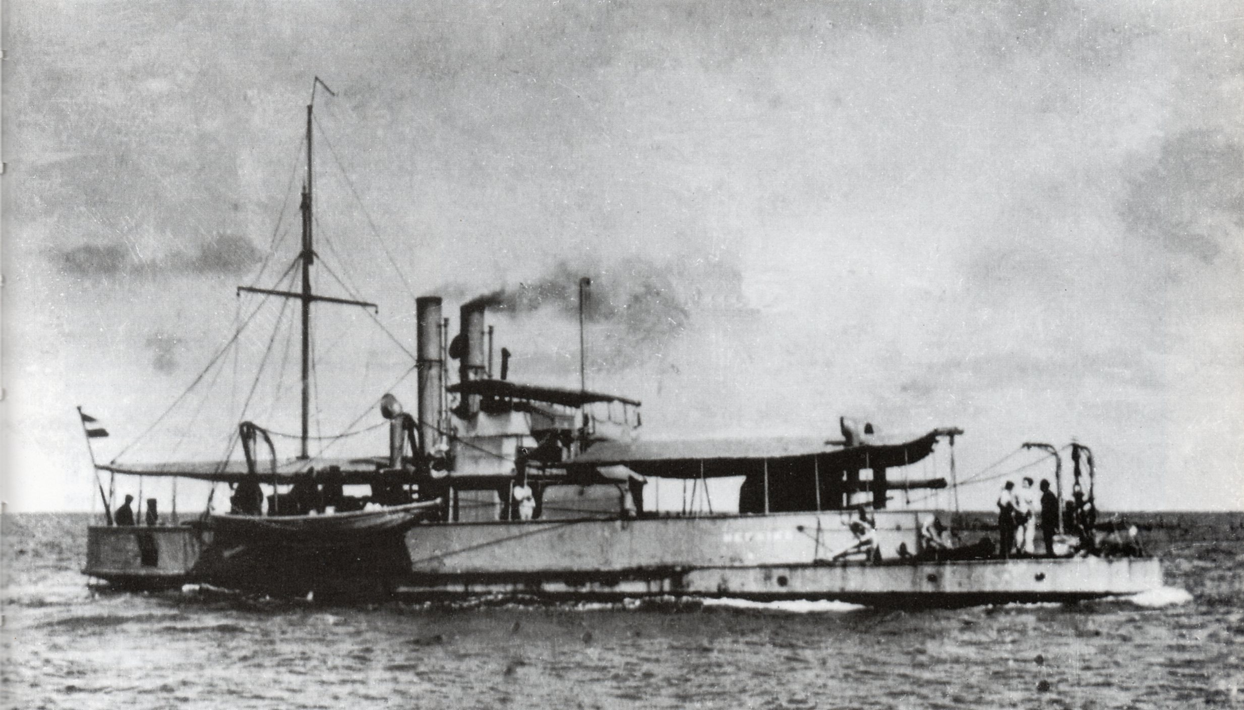 Dutch Thor-class gunboat Heffring